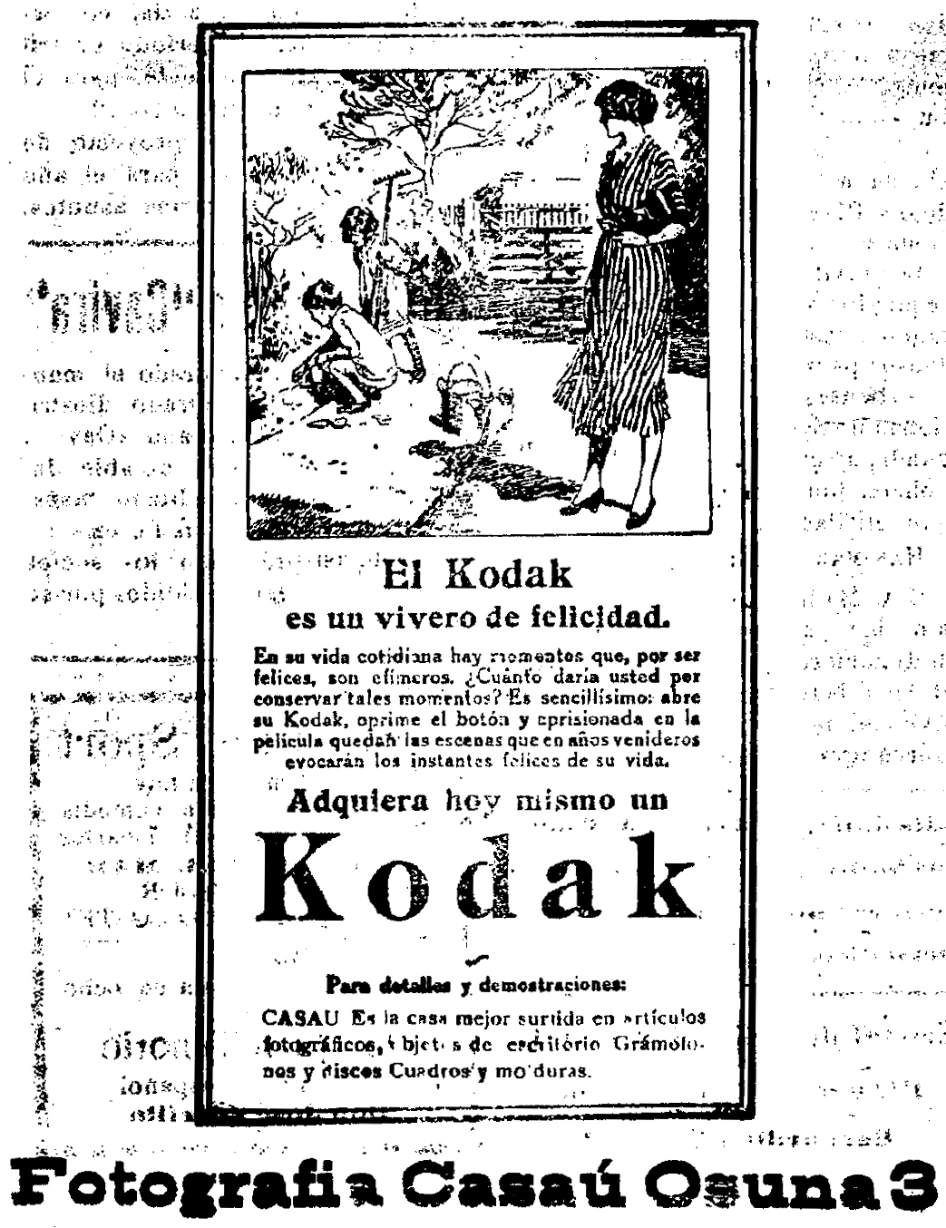 Kodak advertisement published in the Spanish newspaper El Porvenir, from Cartagena. The text reads: The Kodak [camera] is a nursery of happiness. In your daily life there are moments that, for being happy, are ephemeral. How much would you give to keep such moments? It is very simple: open your Kodak, press the button and the scenes that in years to come will evoke the happy moments of your life are imprisoned in the film. Buy a Kodak today. For details and demonstrations: Casaú is the best stocked house in photographic articles, desktop objects, gramophones and disks, frames and moldings. Fotografía Casaú, Osuna 3.